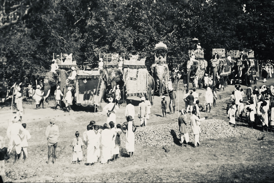 This picture shows royal elephants of the kingdom of Jeypore Kalinga in India.